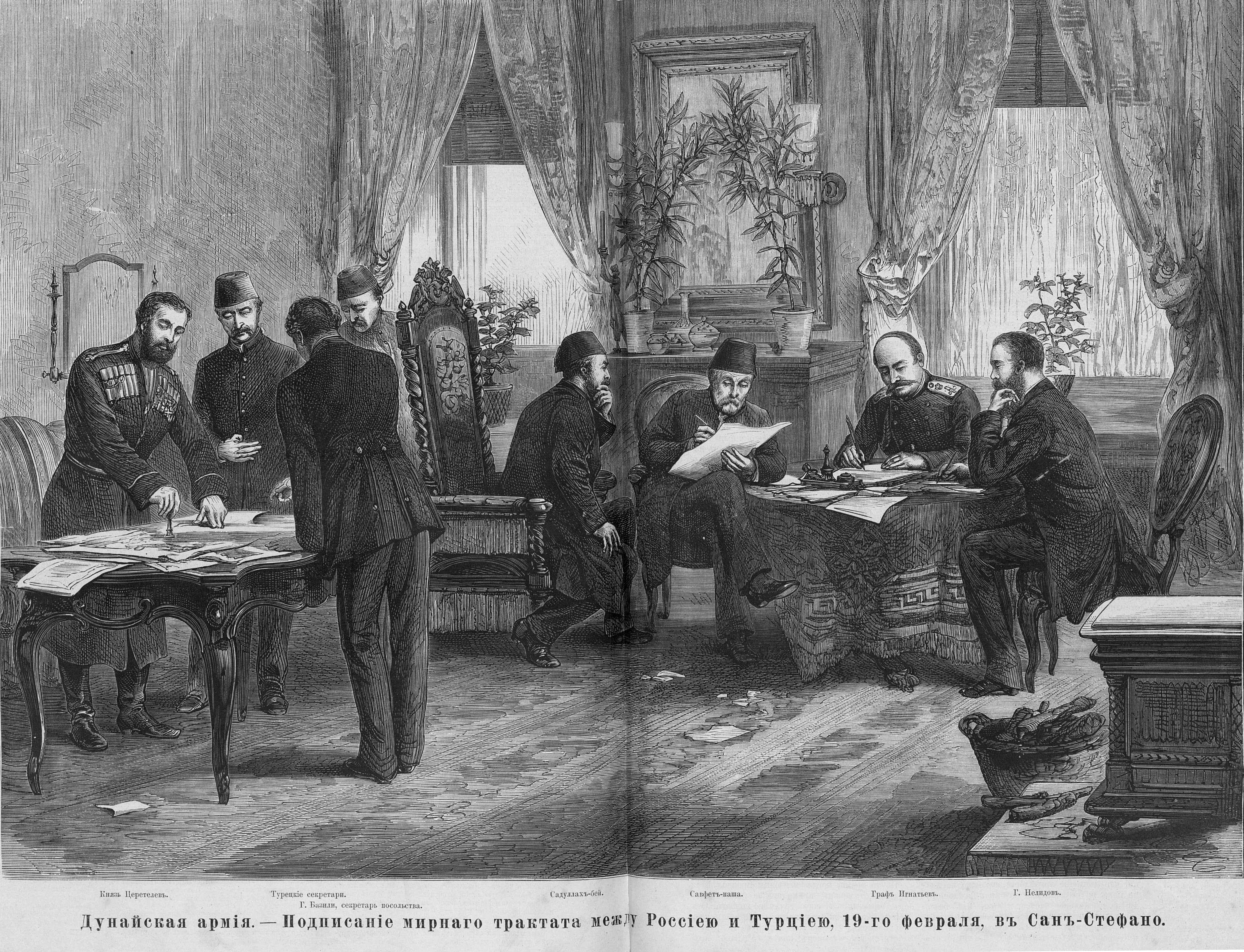 Signing of the Treaty of San Stefano